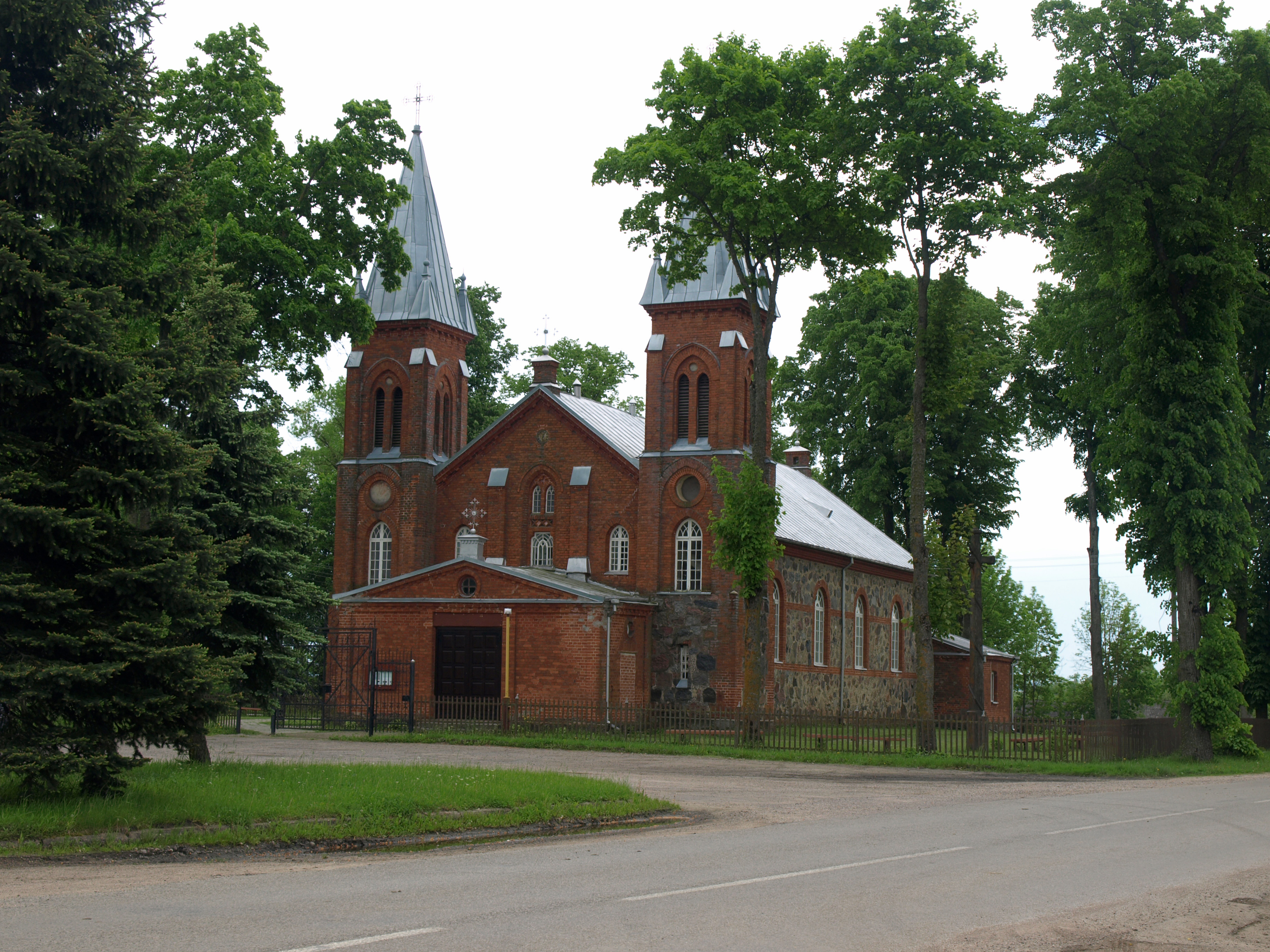 Krokialaukis church, Alytus district, Lithuania